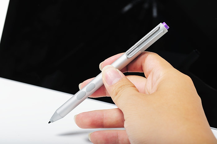 Surface Pen for the Surface Pro 3 and Surface 3